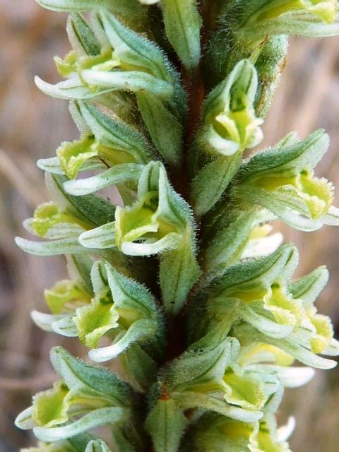 Brachystele unilateralis